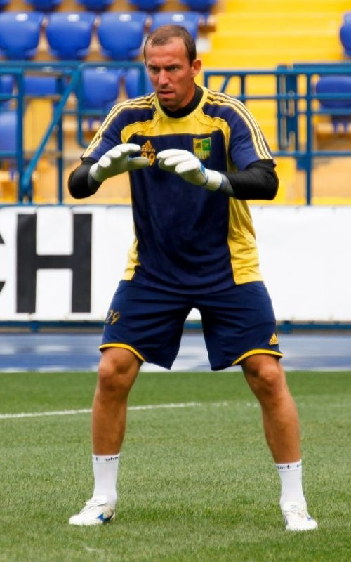 Oleksandr Horyainov, goalkeeper of FC Metalist Kharkiv